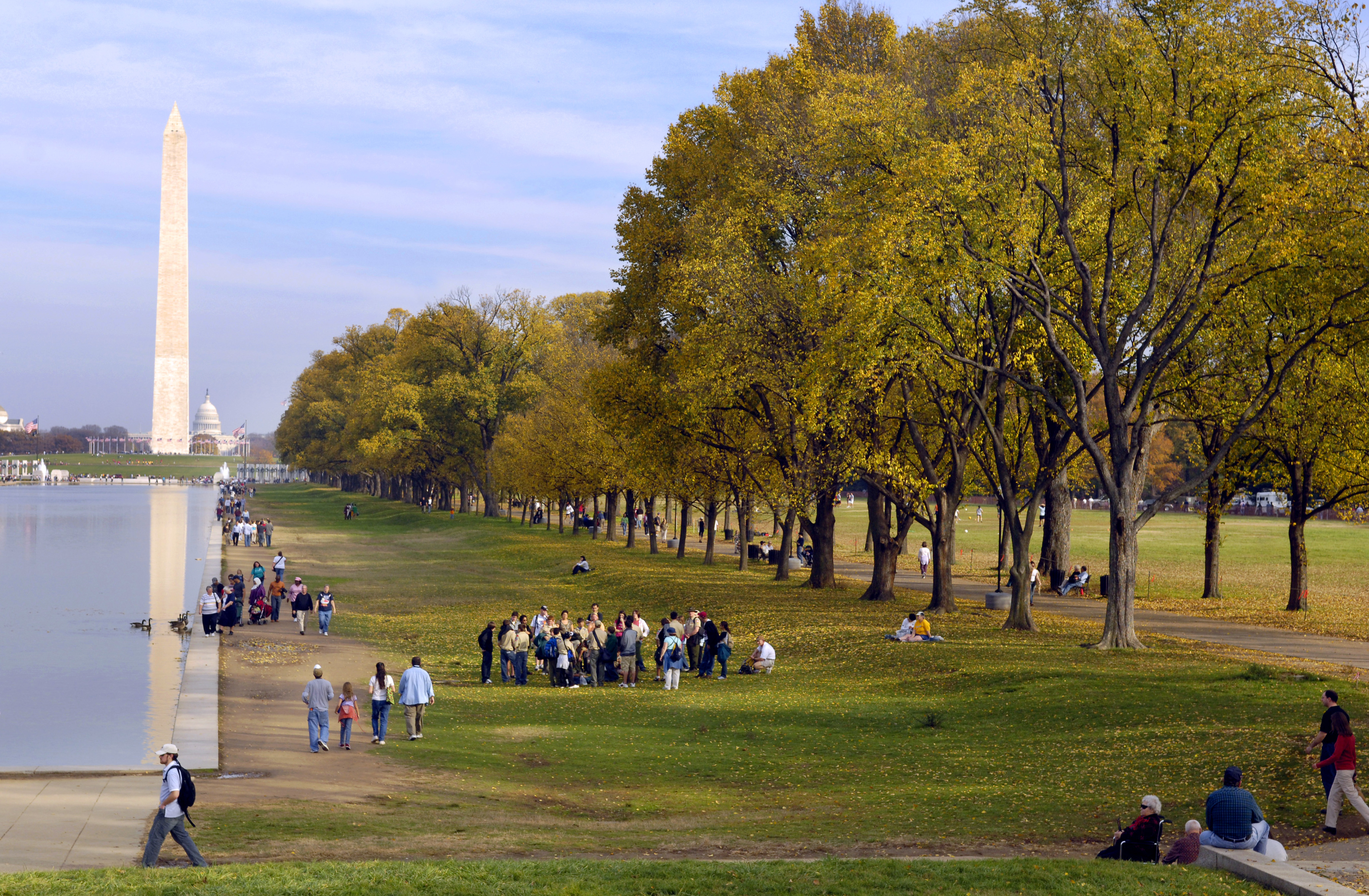 People begin to gather at the National Mall in Washington, D.C., on Veterans Day to watch the Vietnam Memorial ceremony, Nov. 11, 2006.